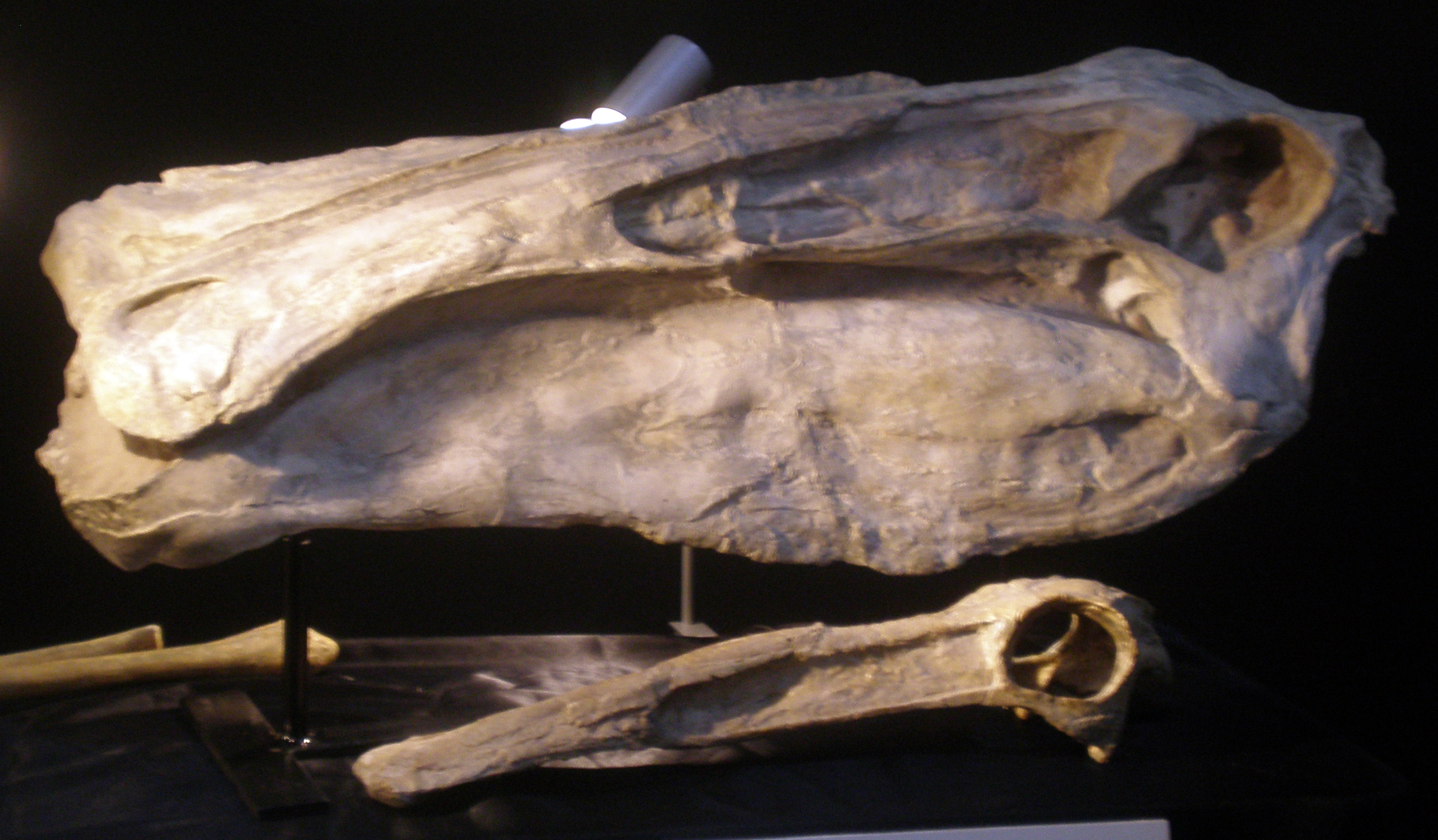 Skull of Deinocheirus, taken at The Munich Show